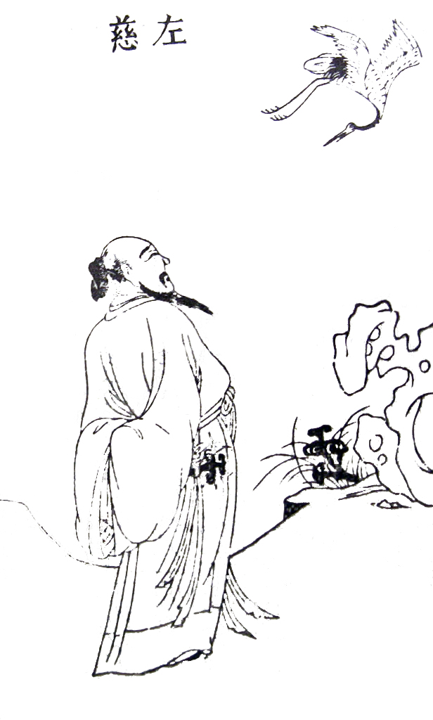 A portrait of the Zuo Ci from Sancai Tuhui.